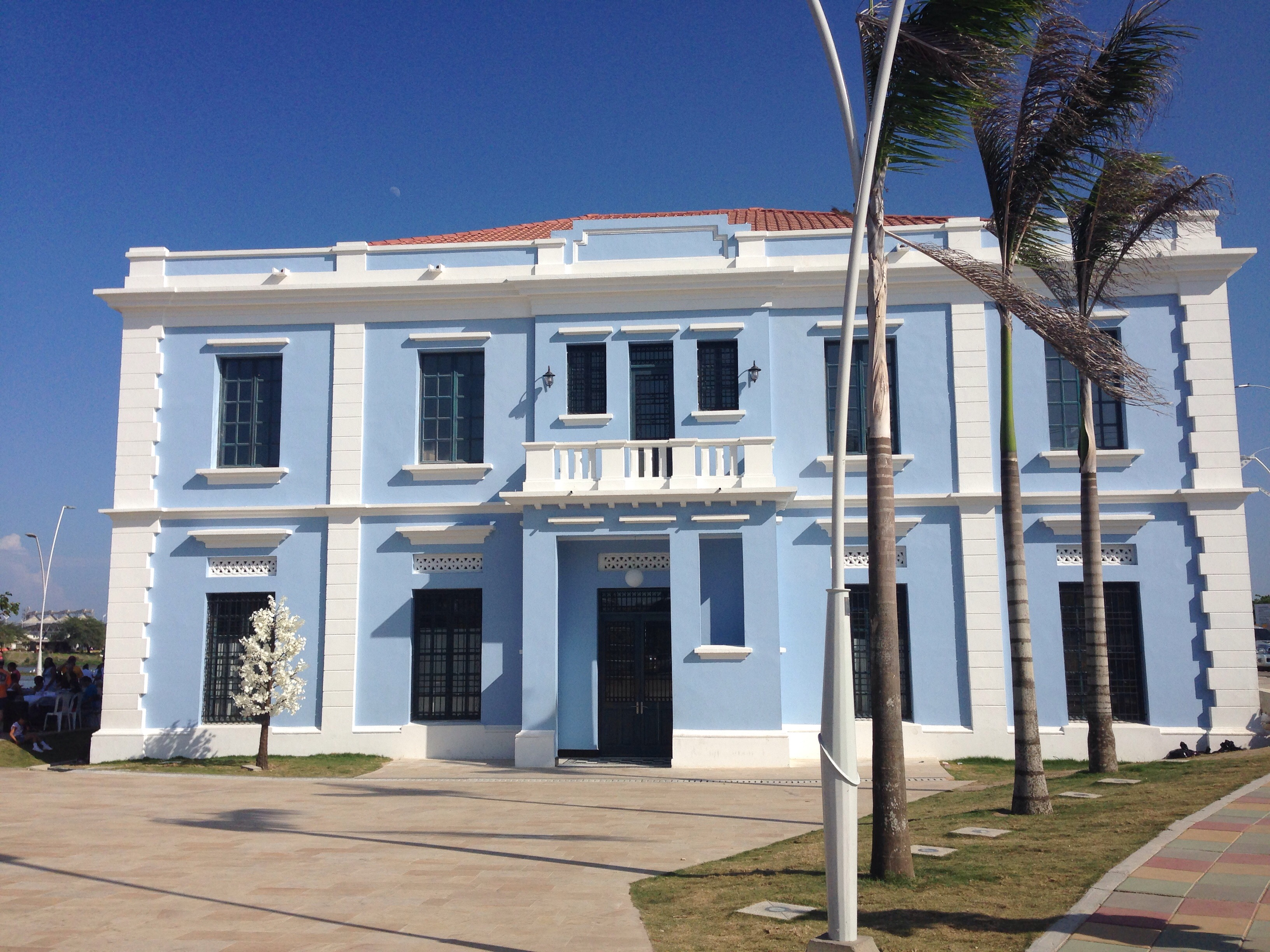 Intendencia Fluvial